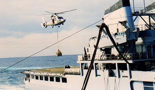 L'hélicoptère Panther de la frégate Cassard effectue un transfert de charge légère avec le PR Meuse